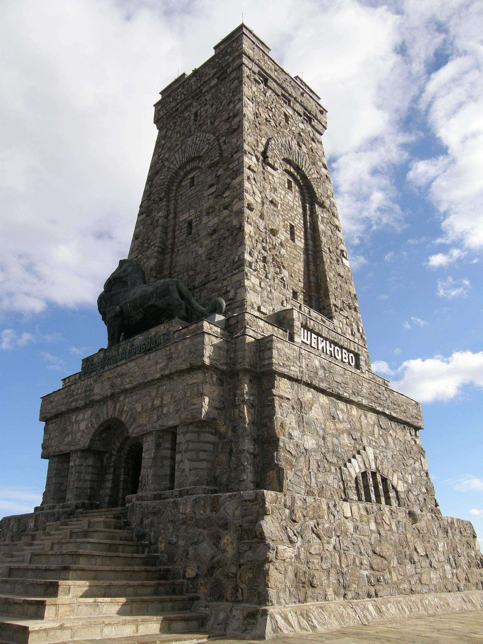 Shipka Memorial at the top of the Balkan mountains. Built in 1934 to honour the memory of various key battles that took place at the historic Shipka Pass during the Russo-Turkish War 1877-1878.